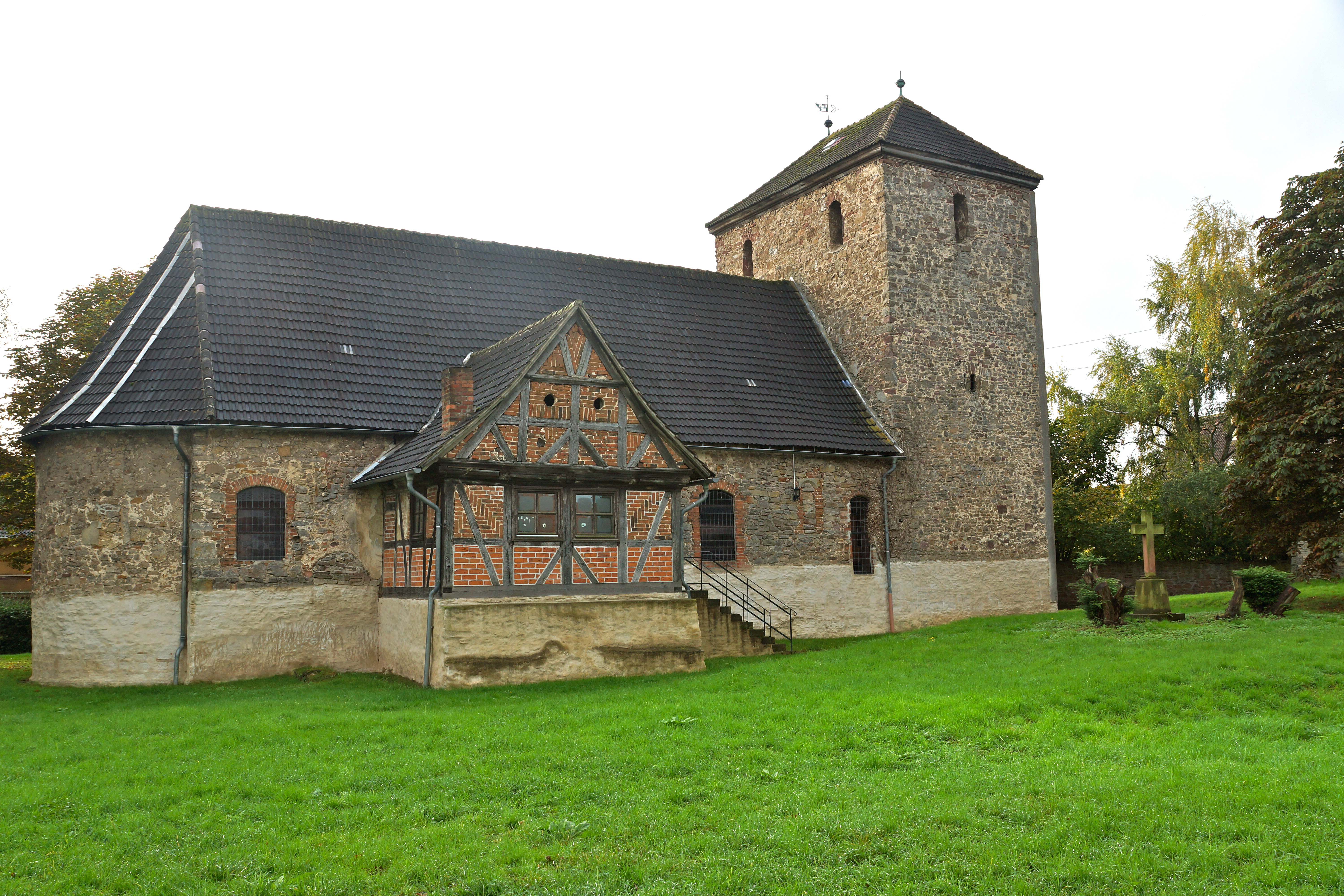 Altenhausen (Emden), Germany: Saint George's Church